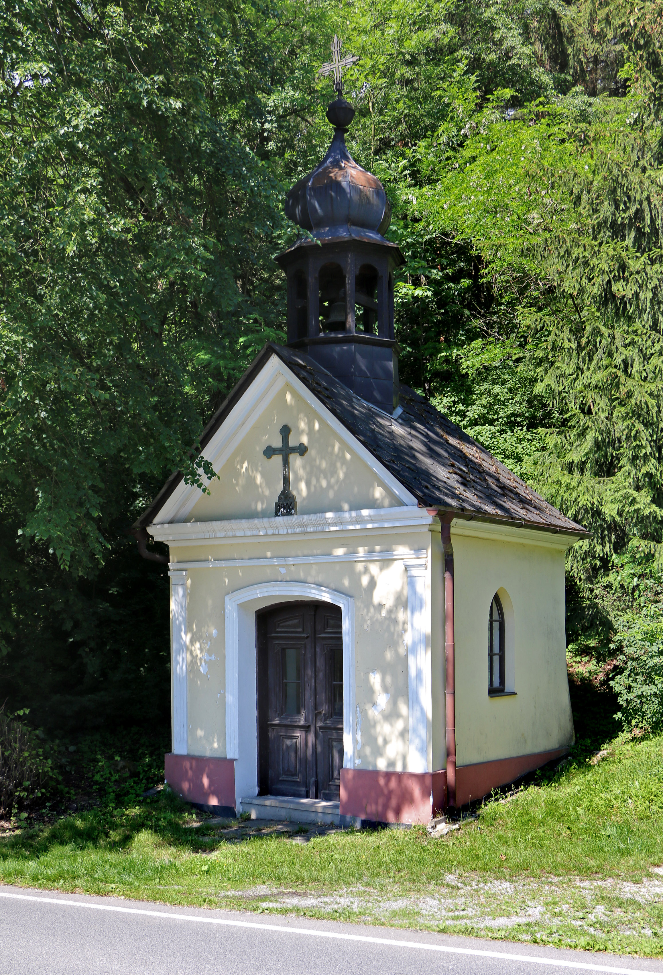 Chapel in Vlčice, part of Loštice, Czech Republic.